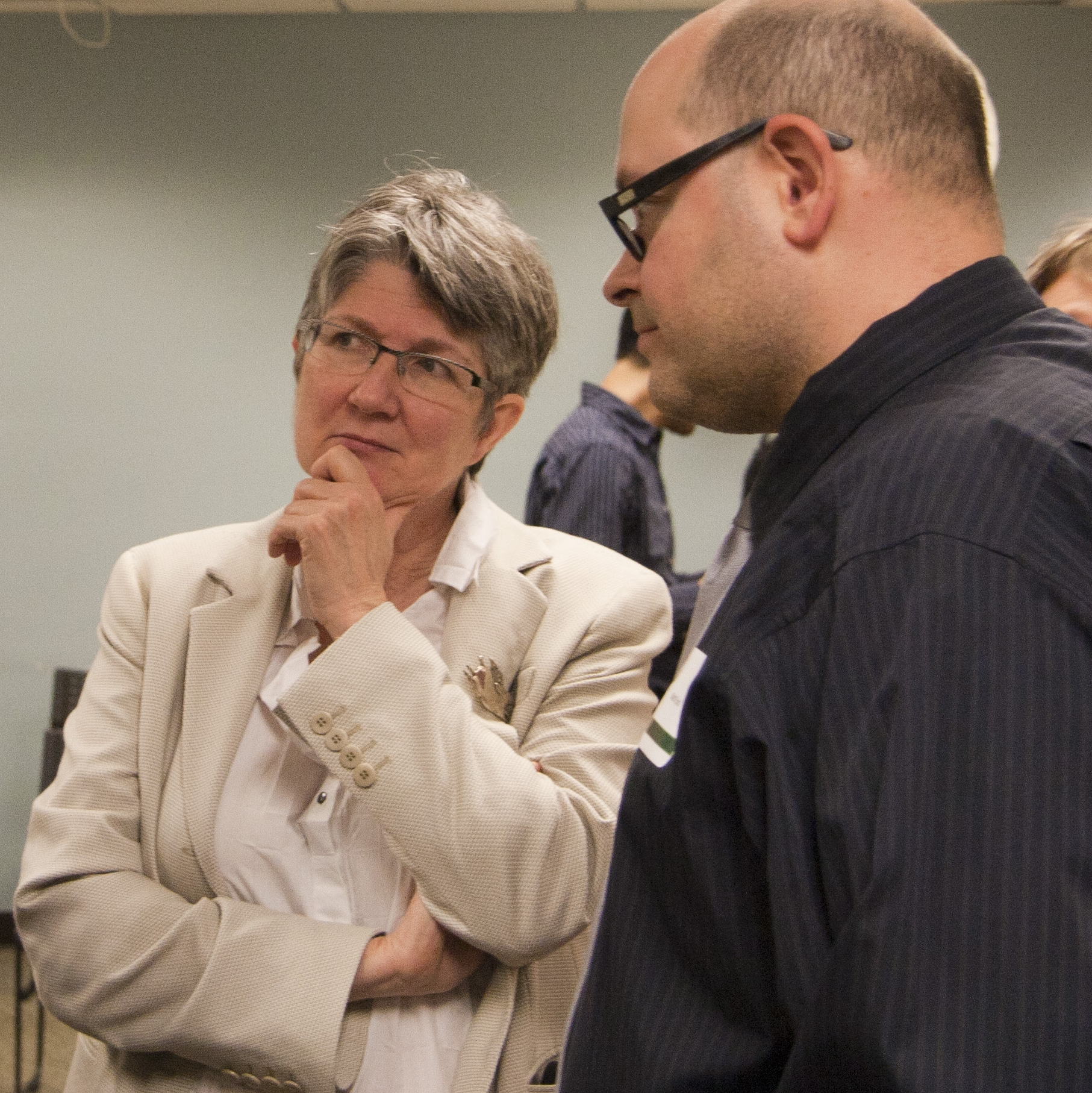 Shimer College president Susan Henking listens during a conversation at her inauguration in 2013.